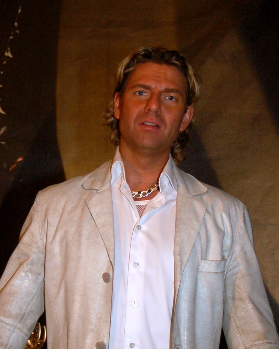 Cropped from original version Joe Labero i Norrköping. Foto: Daniel Åhs Karlsson Joe Labero in Norrköping.